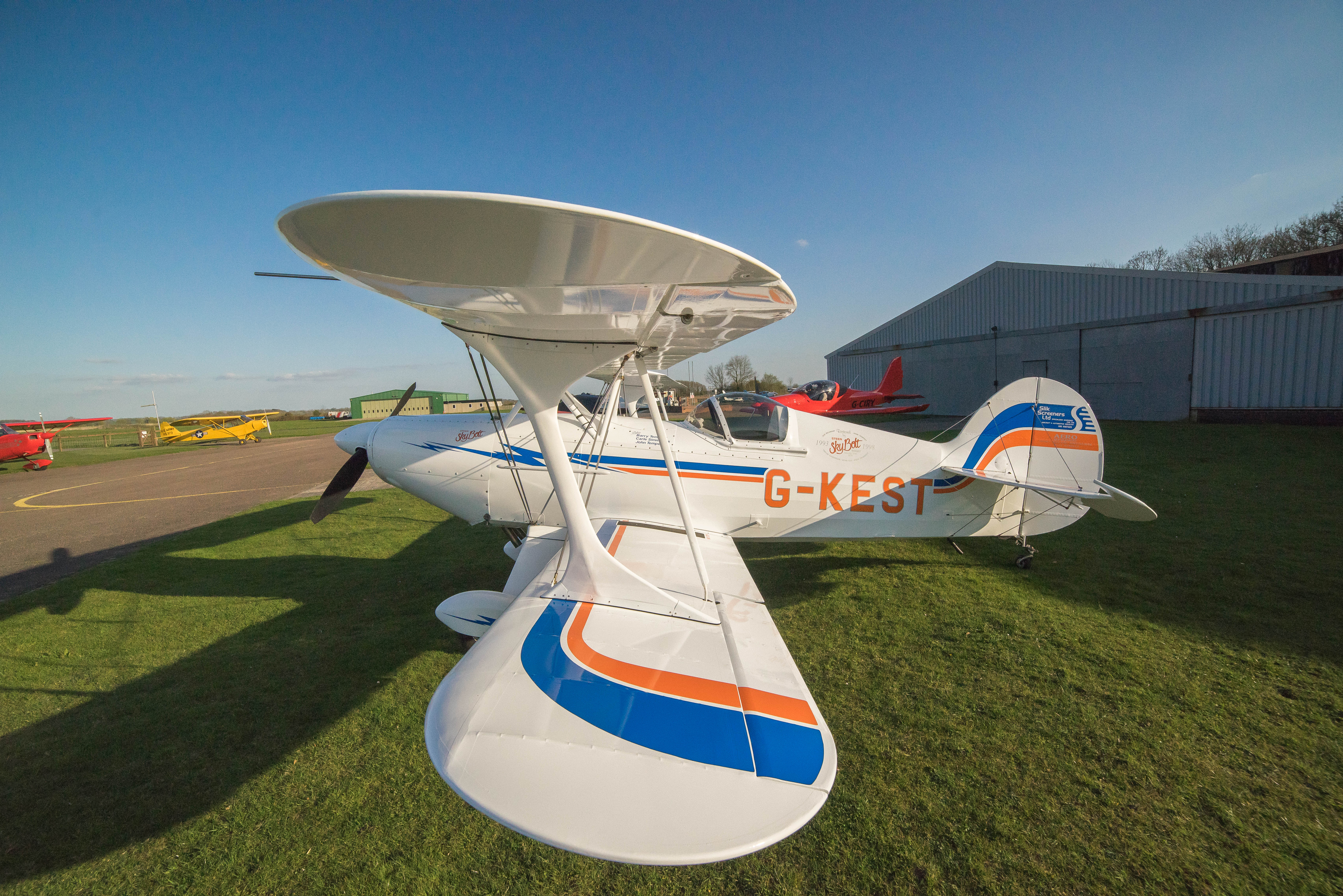 Steen Skybolt at Leicester airfield, UK